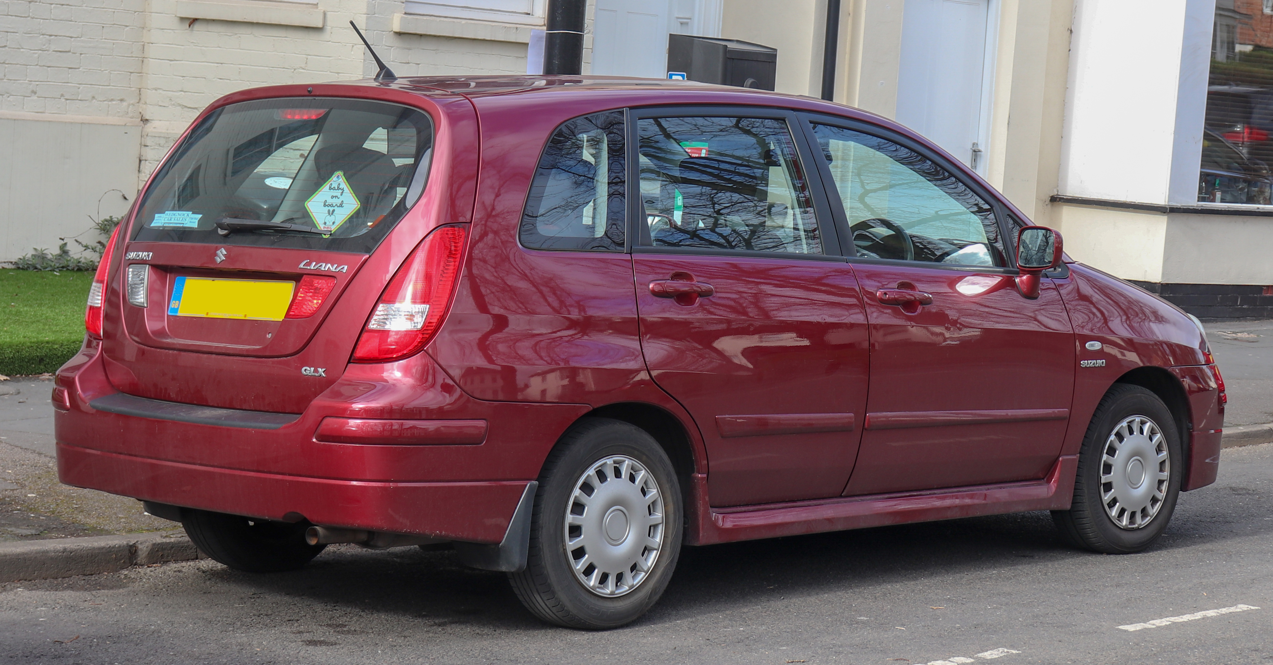 2004 Suzuki Liana GLX 1.6 Rear Taken in Leamington Spa